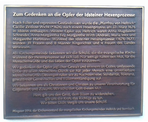 Gedenkstein Opfer der Hexenprozesse Evang. Kirchengemeinde Idstein Heftrich Bermbach 2014